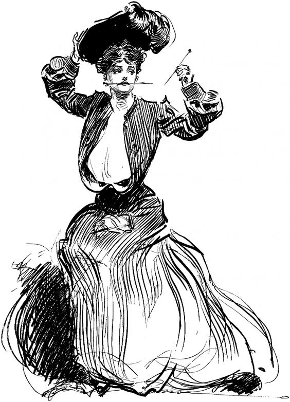 "Hatpin girl" by Charles Dana Gibso